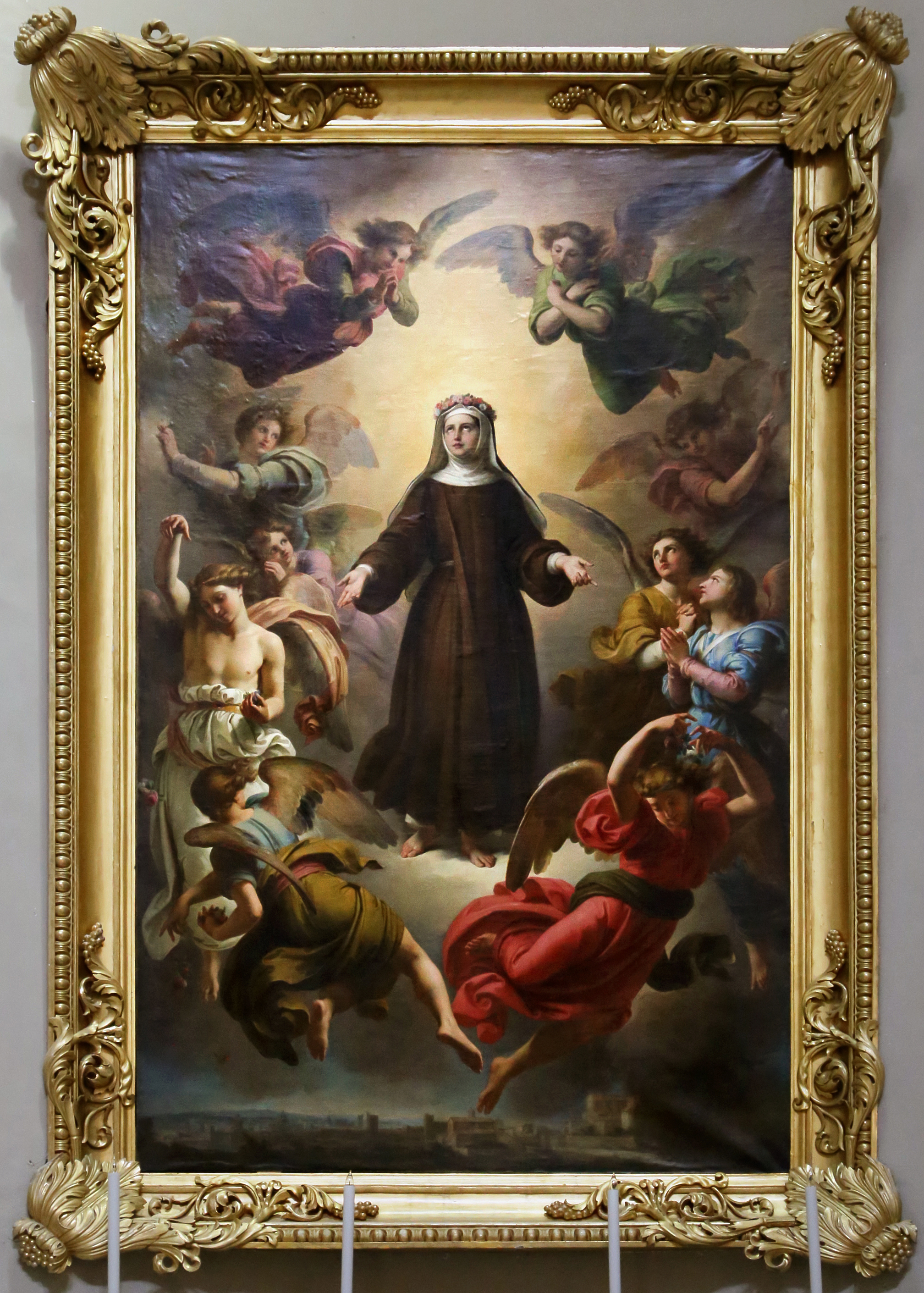 Santa Rosa (Viterbo)